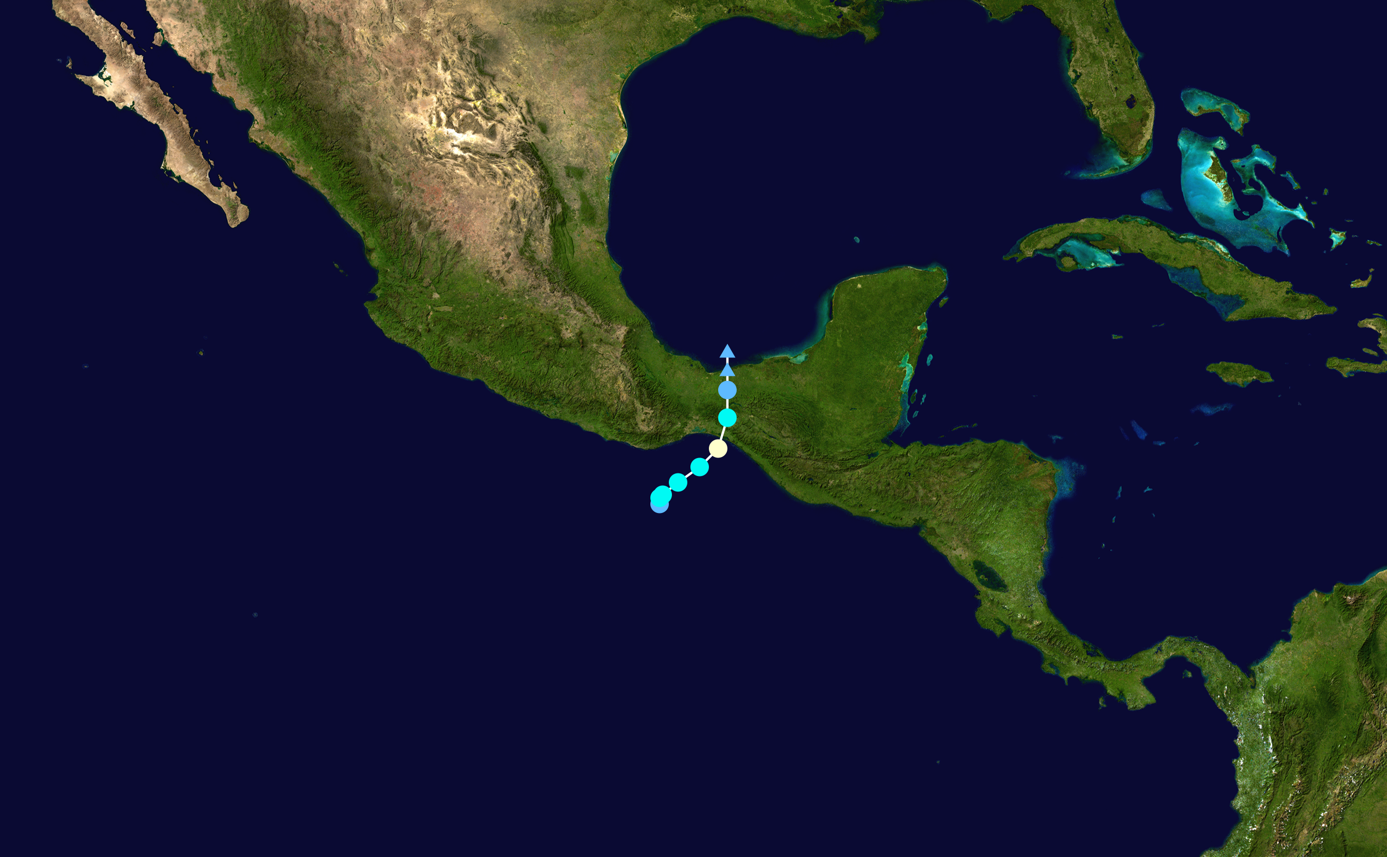 Track map of Hurricane Barbara of the 2013 Pacific hurricane season. The points show the location of the storm at 6-hour intervals. The colour represents the storm's maximum sustained wind speeds as classified in the Saffir–Simpson scale (see below), and the shape of the data points represent the nature of the storm, according to the legend below. Saffir–Simpson scale Tropical depression≤38 mph≤62 km/h Category 3111–129 mph178–208 km/h Tropical storm39–73 mph63–118 km/h Category 4130–156 mph209–251 km/h Category 174–95 mph119–153 km/h Category 5≥157 mph≥252 km/h Category 296–110 mph154–177 km/h Unknown Storm type Tropical cyclone Subtropical cyclone Extratropical cyclone / Remnant low / Tropical disturbance / Monsoon depression